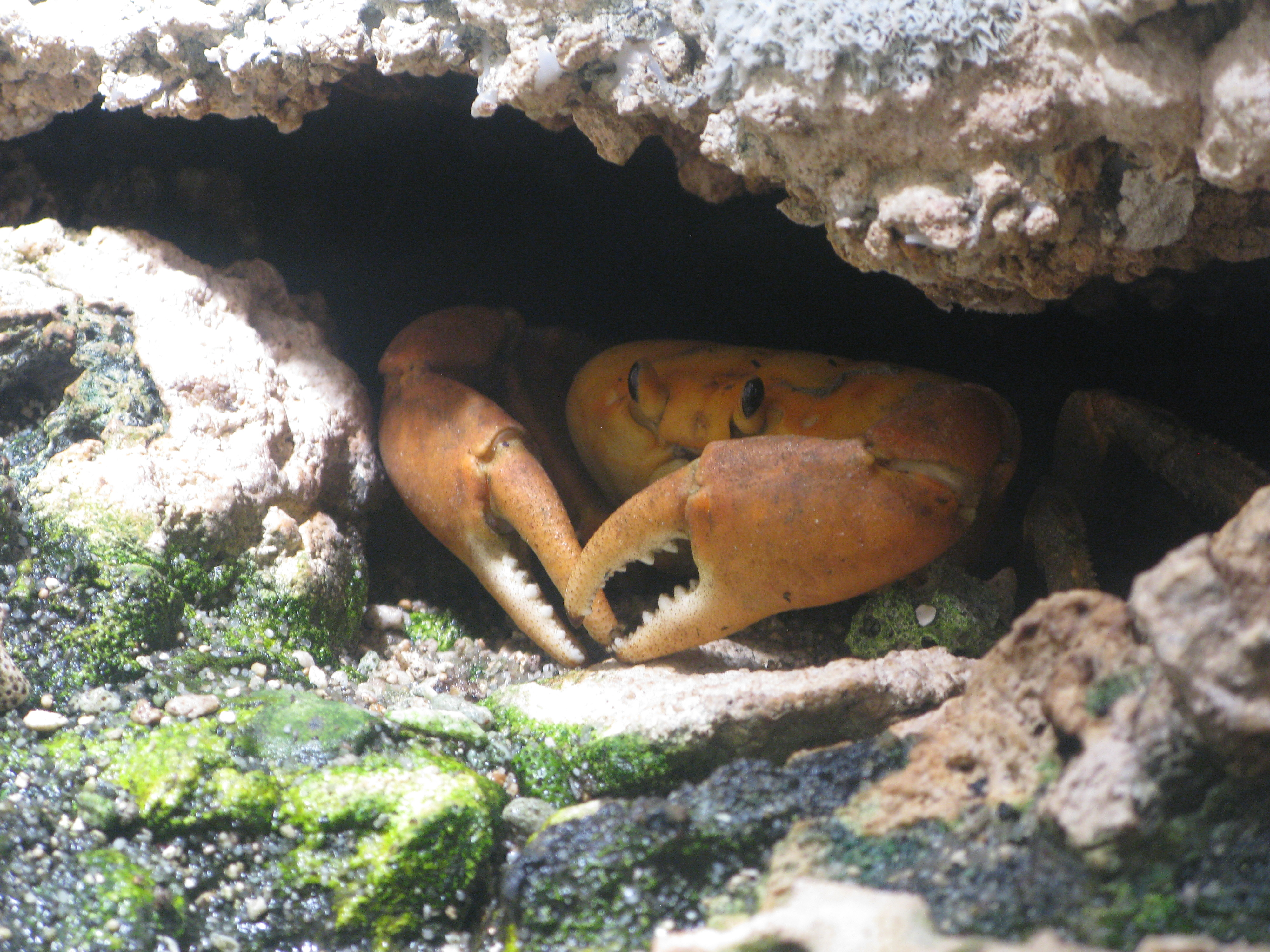 Clipperton Island red crab (Johngarthia planata aka Gecarcinus planatus) at the ménagerie du Jardin des plantes, Paris.